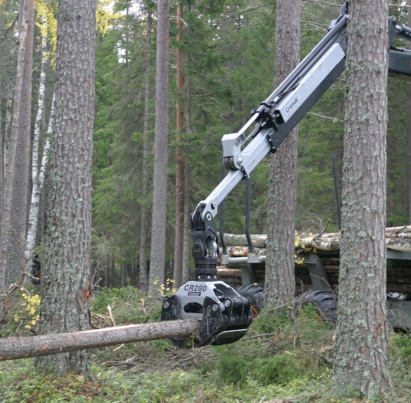 Front part of a Cranab FC105 Combi crane (forwarder partly visible in the background)